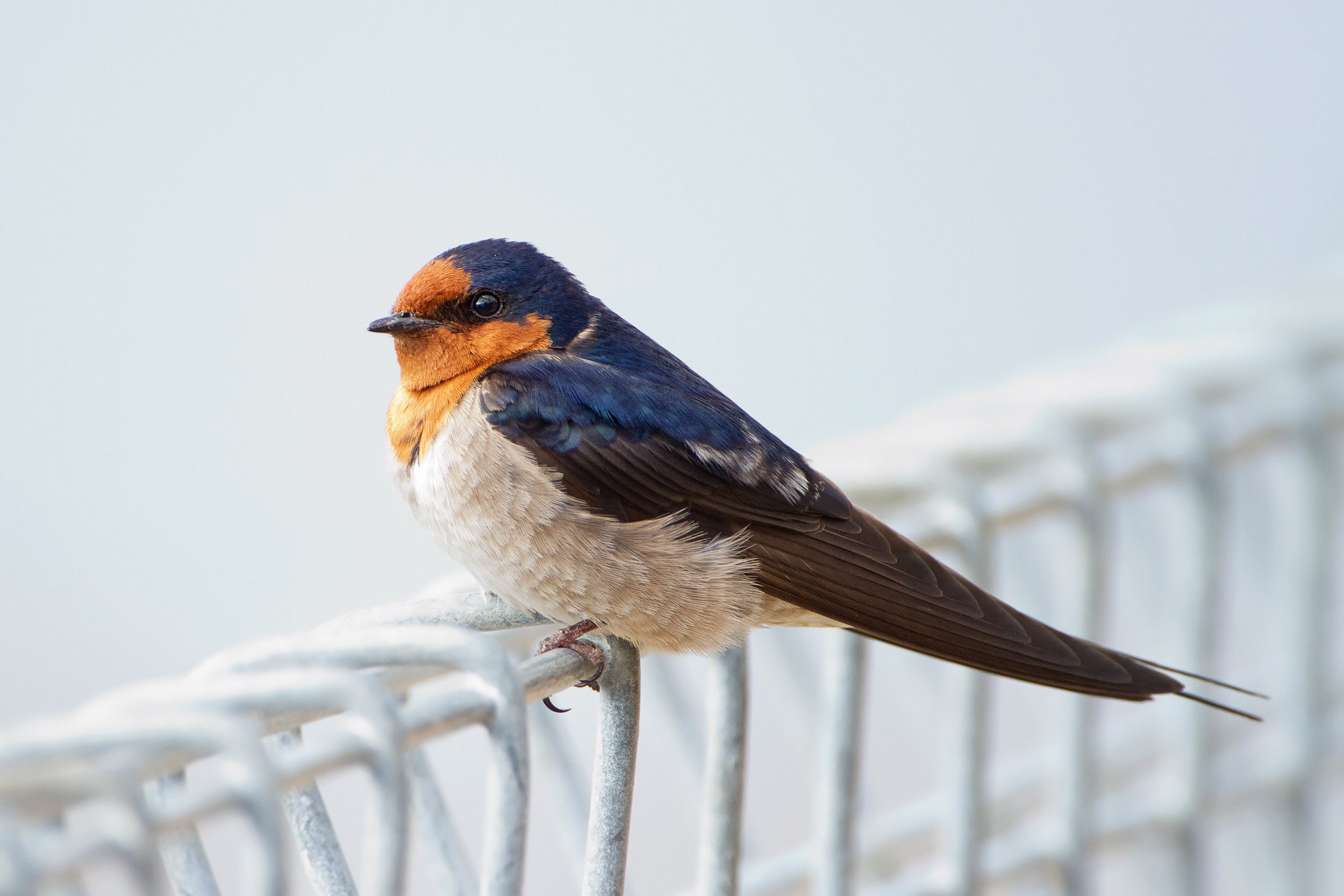 Welcome Swallow (Hirundo neoxena), Risdon Brook Park, Tasmania, Australia